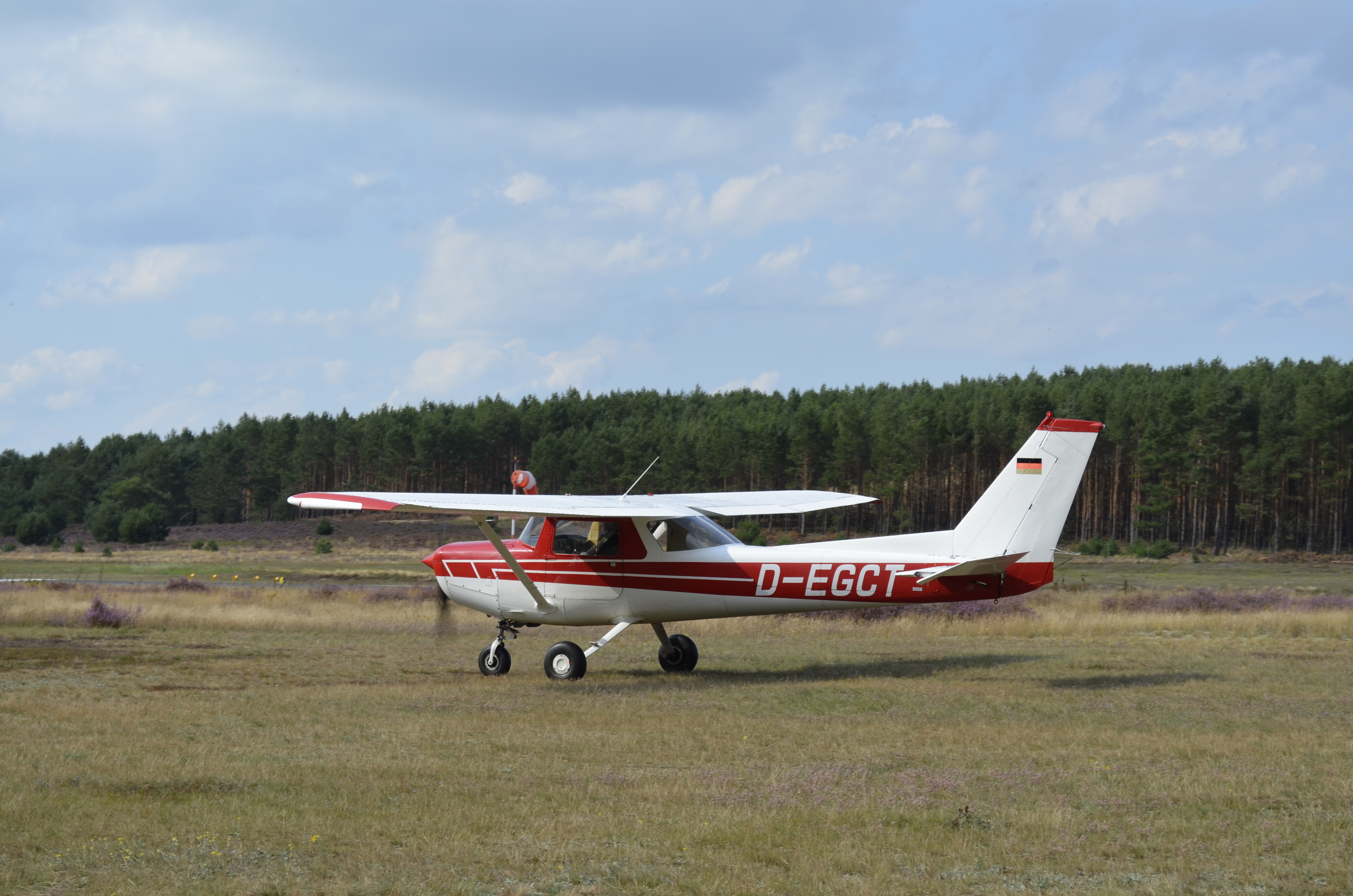 Cessna F152 (Reims Aviation) - photo was shot in EDAZ